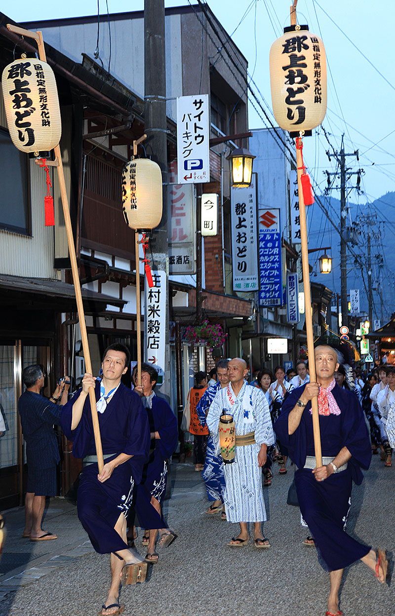 Gujo Odori (郡上おどり) dance festival at Gujo City, Gifu Prefecture, Japan